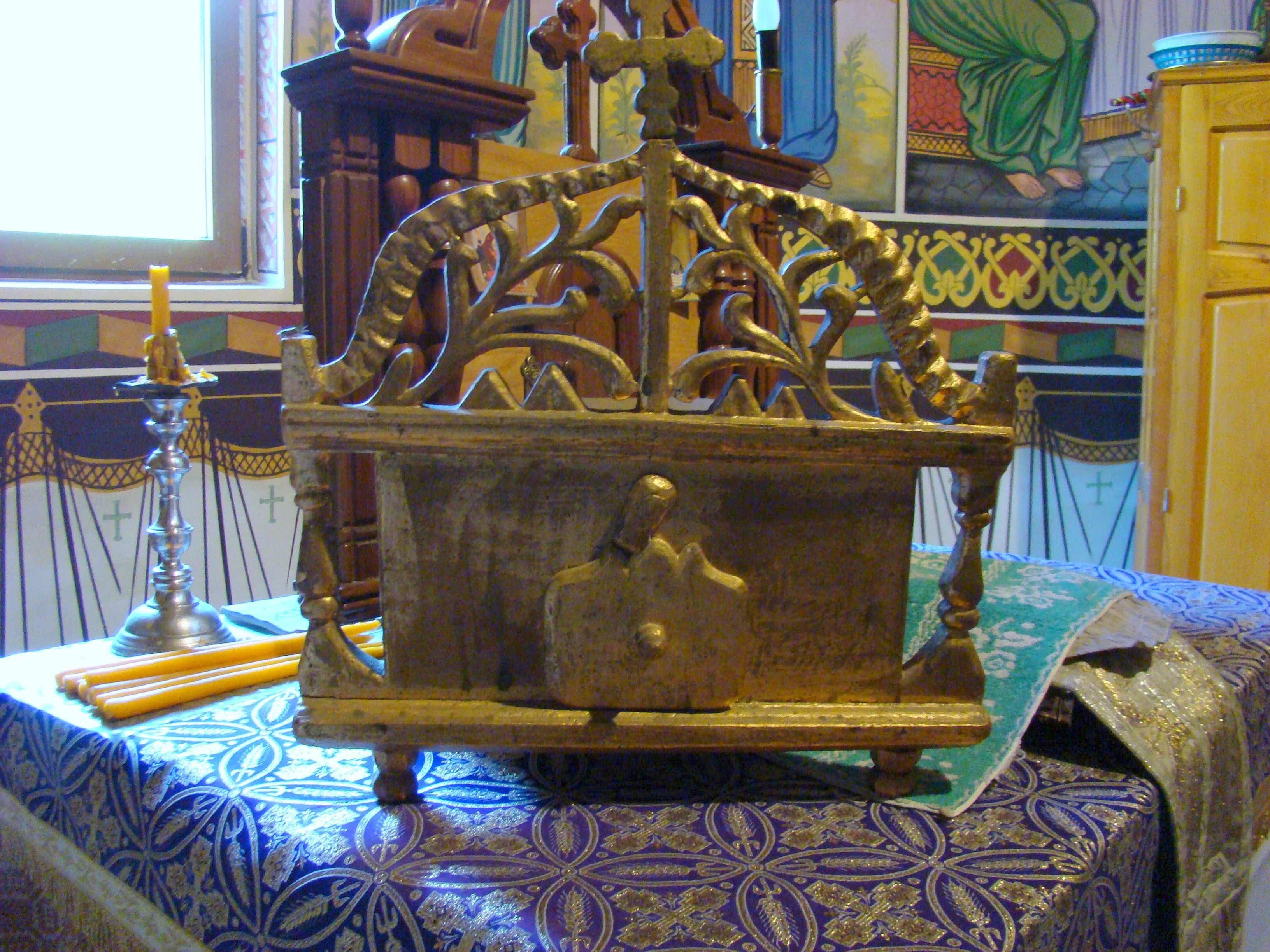 Wooden church in Iosășel, Arad county, Romania